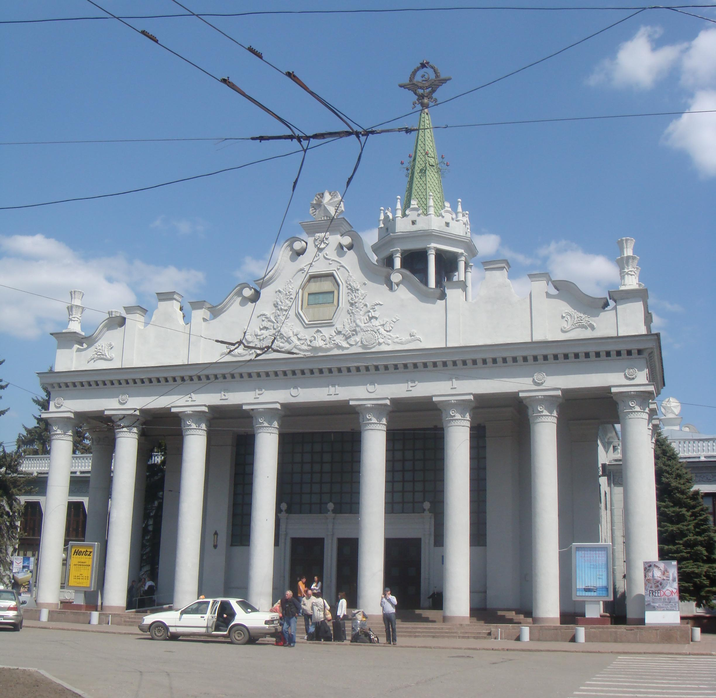 Kharkiv International Airport